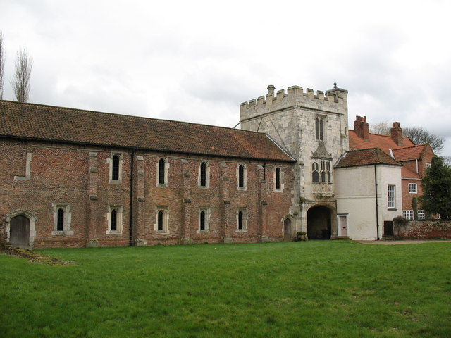 Cawood Castle, Cawood, a country residence of the Archbishops of York